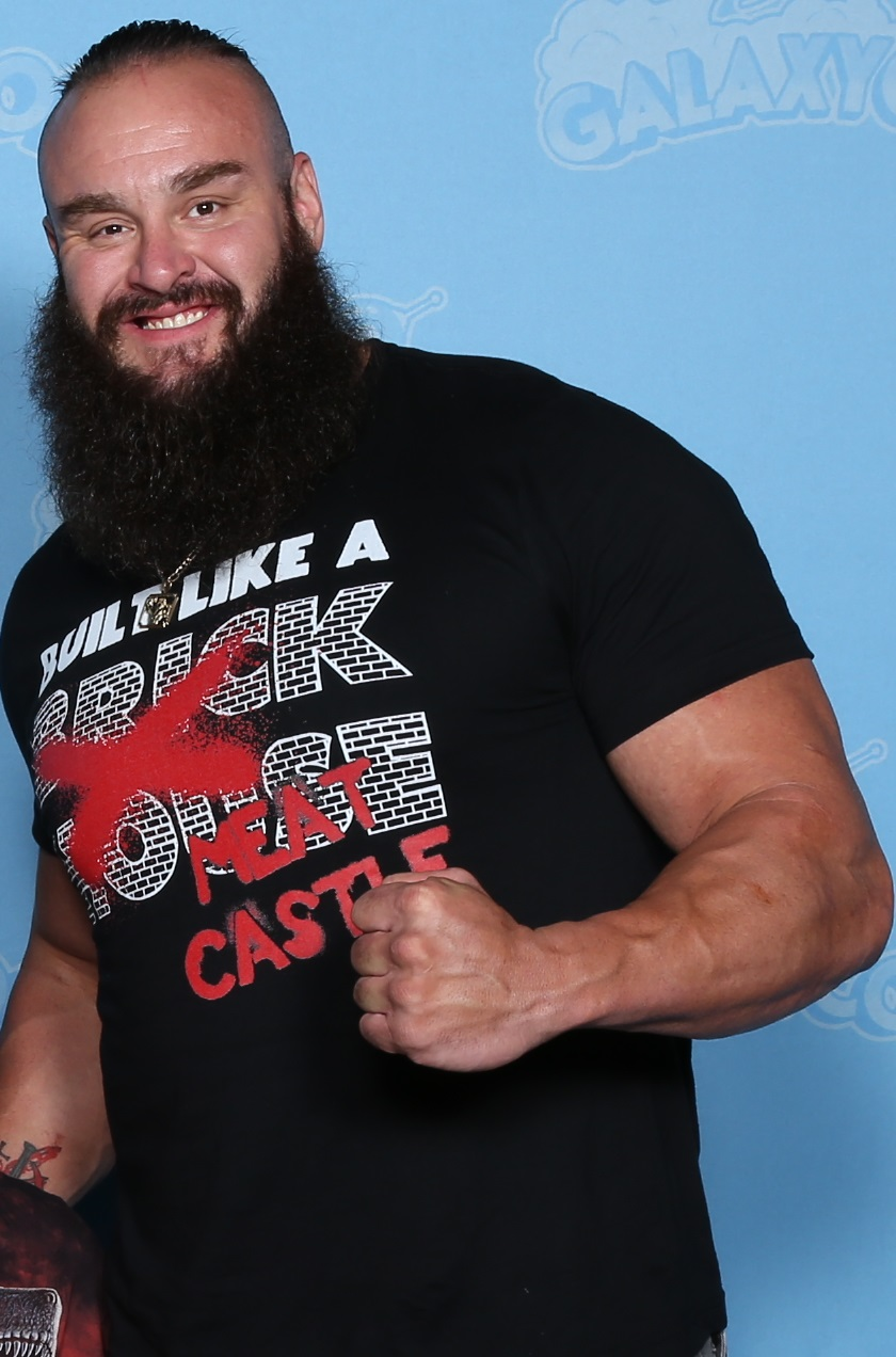 Professional wrestler, Braun Strowman on July 25, 2019 at GalaxyCon Raleigh.